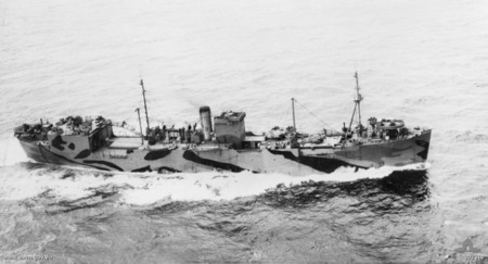 Aerial photograph of HMS Athene, a Clan Line cargo ship requisitioned as a Royal Navy seaplane tender and aircraft transport.